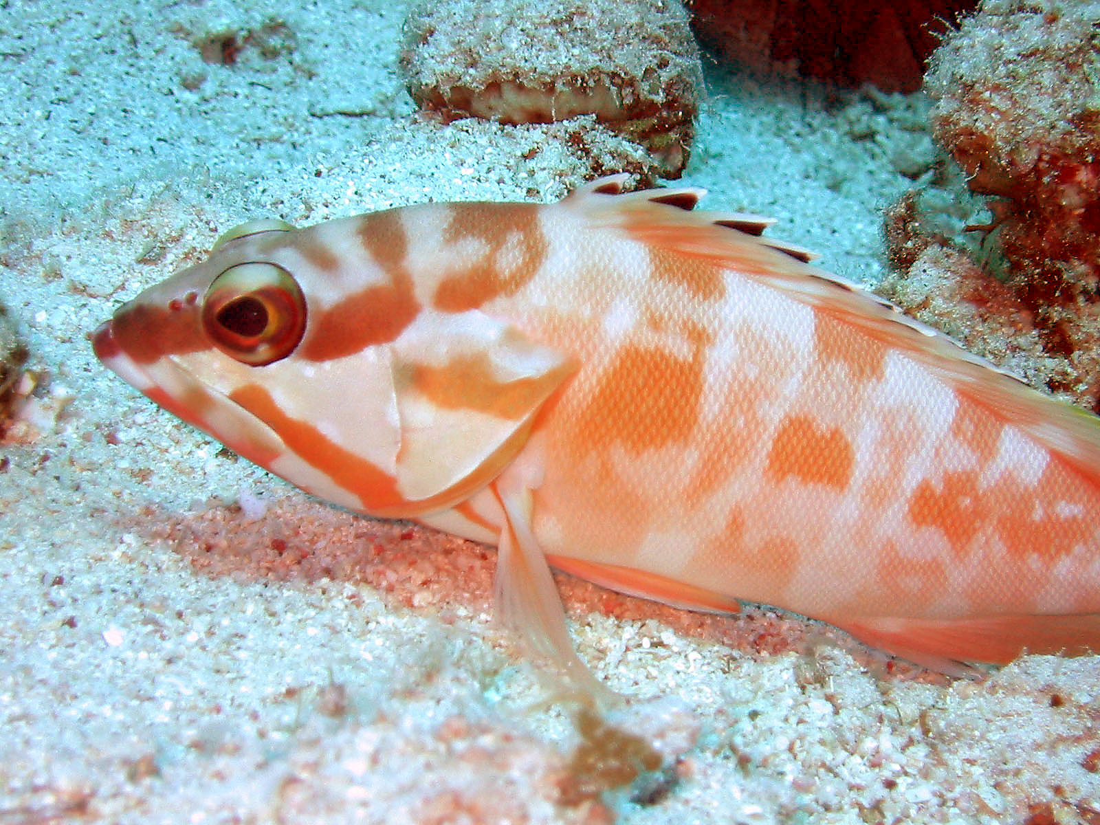 blacktip grouper Epinephelus fasciatus Dahab Red Sea